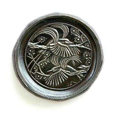 Birds of paradise, iron, struck